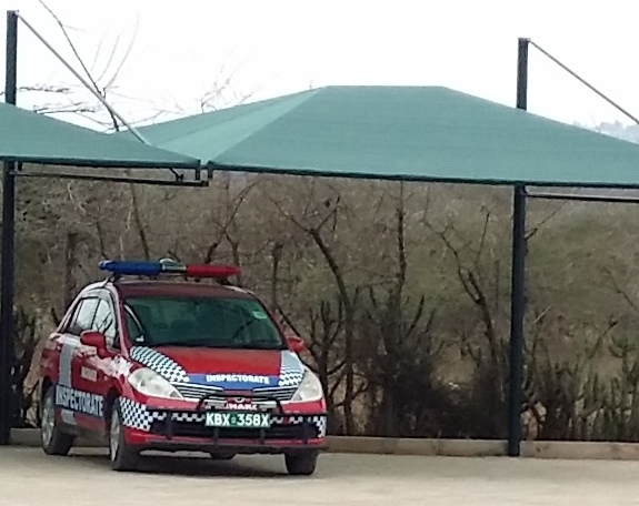 Inspectorate Vehicle Machakos CountyKiswahili: Gari la Ukaguzi, Machakos County